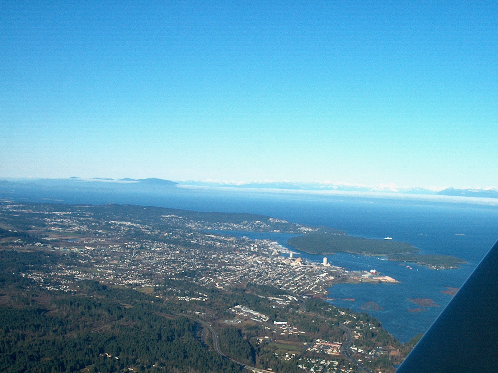 Aerial photograph I took myself of the City of Nanaimo BC on December 27, 2004 showing the city as well as Newcastle Island (just below a BC Ferry headed for Vancouver) and Protection Island looking approximately North across the Strait of Georgia. 2 of 2.